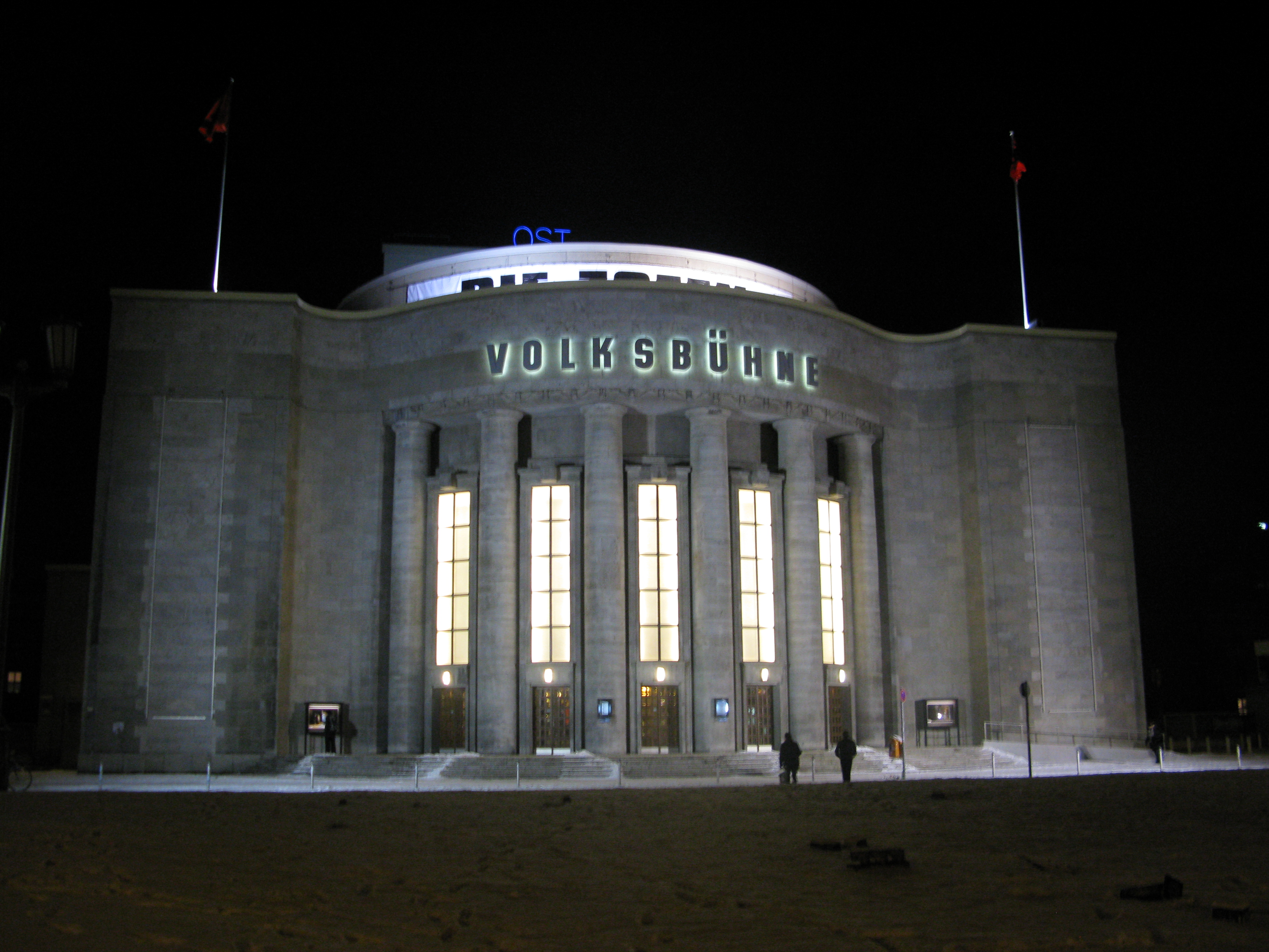 The Volksbühne (theatre) in Berlin, Germany - facing the main entrance.